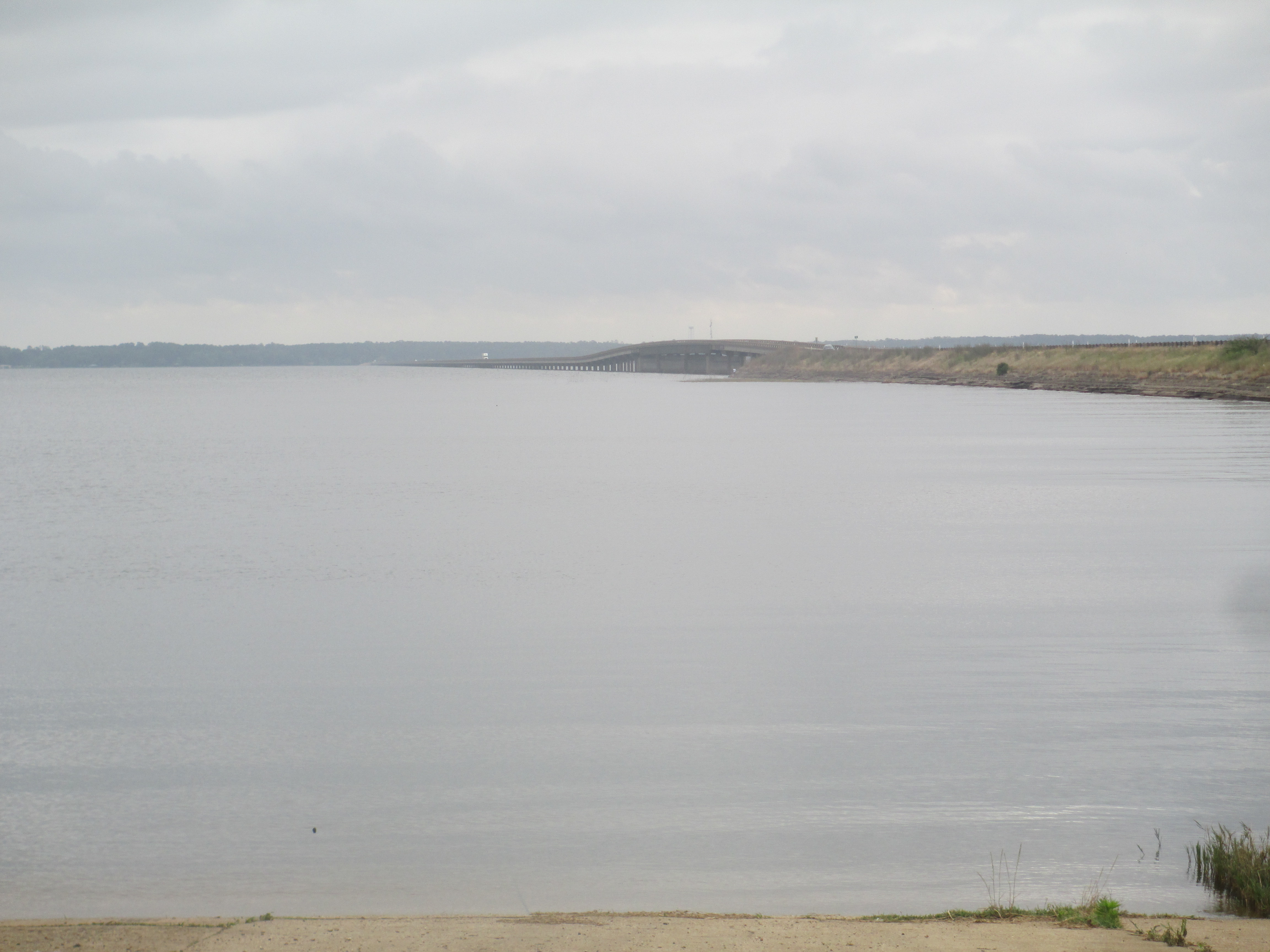 I took photo with Canon camera of Toledo Bend Reservoir west of Many, LA.